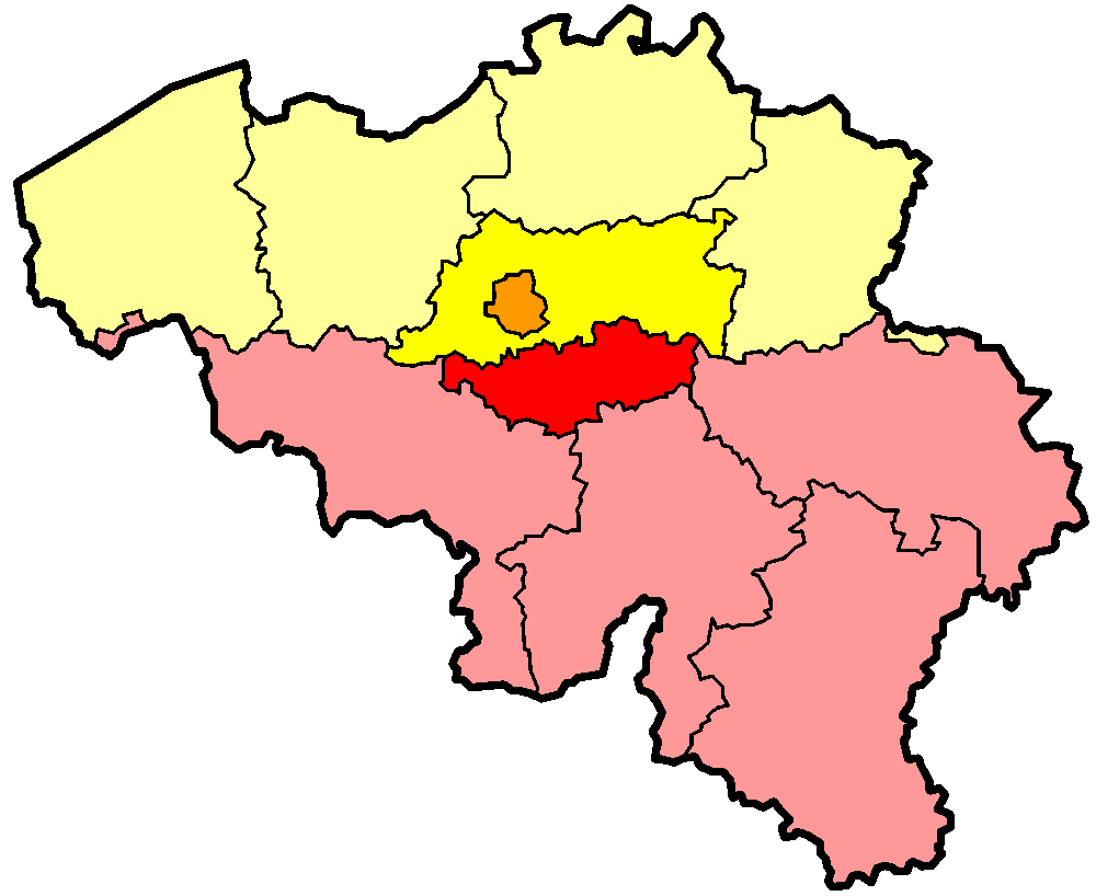 Diagram of the Belgian Province of Brabant, which was divided into Flemish Brabant (bright yellow), Walloon Brabant (bright red), and the Brussels-Capital Region (orange).